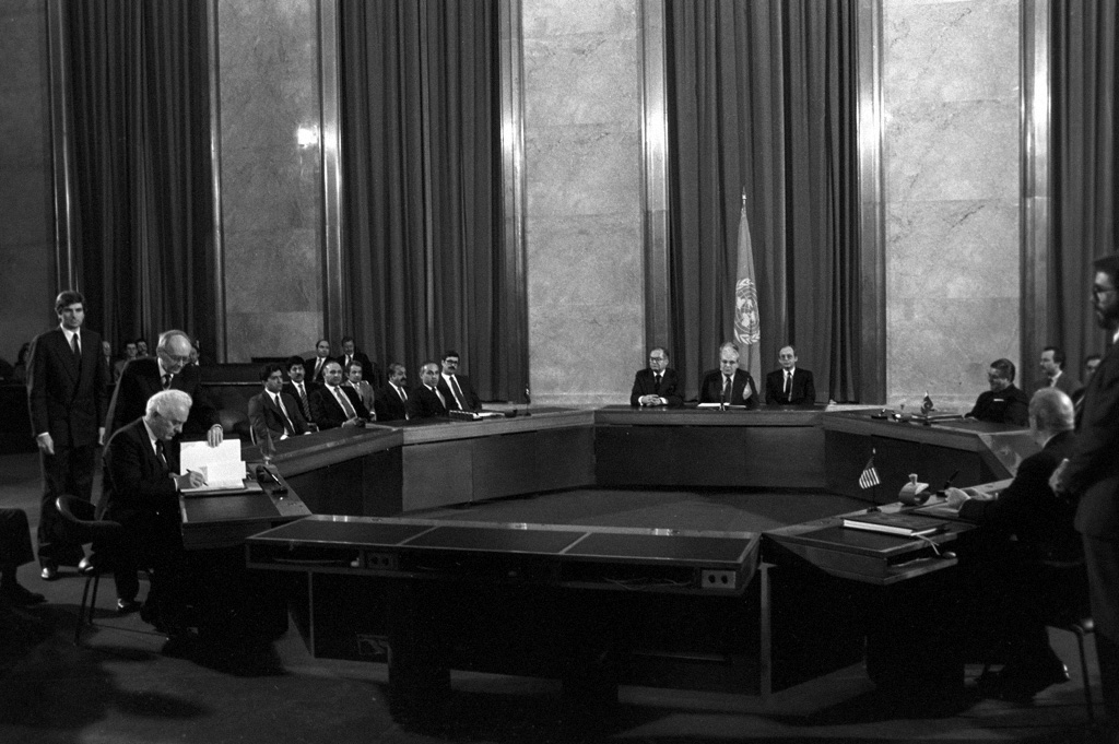 “Signing the Geneva agreement on the settlement of the political situation around Afghanistan”. Member of the Politburo and Soviet Foreign Minister Eduard Ambrosievich Shevardnadze and U.S. Secretary of State George Shultz signing the Declaration on international safeguards and an agreement on the relationship to address the situation relating to Afghanistan. Palais des Nations.